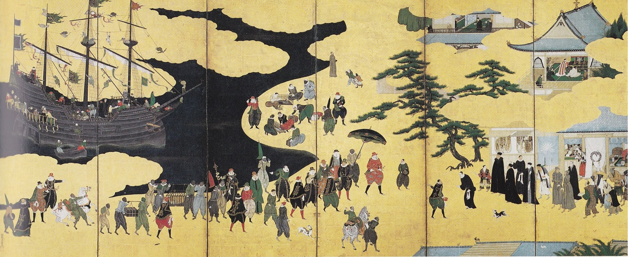 Nanban trade. The screen shows foreigners arriving at a shore of Japan. Kano Uchizen "Nanbanjin Inauguration" (right), Kobe City Museum Collection.